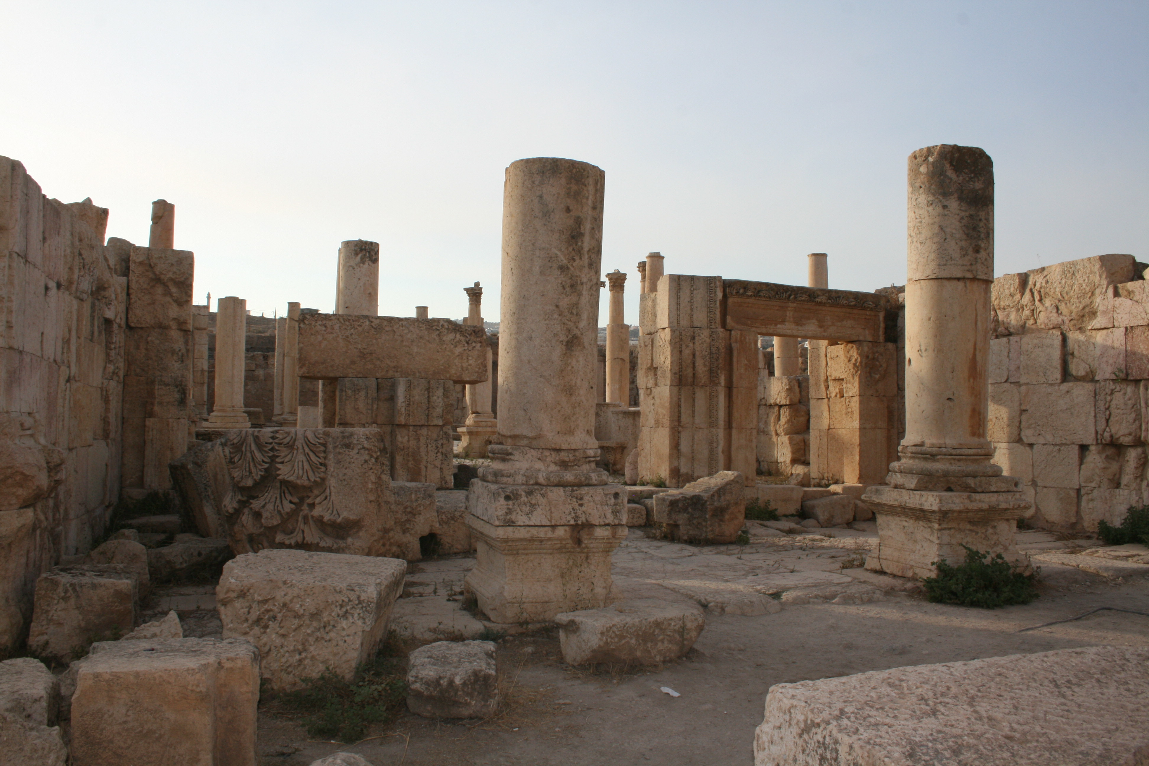 Macellum, Jerash, Jordan